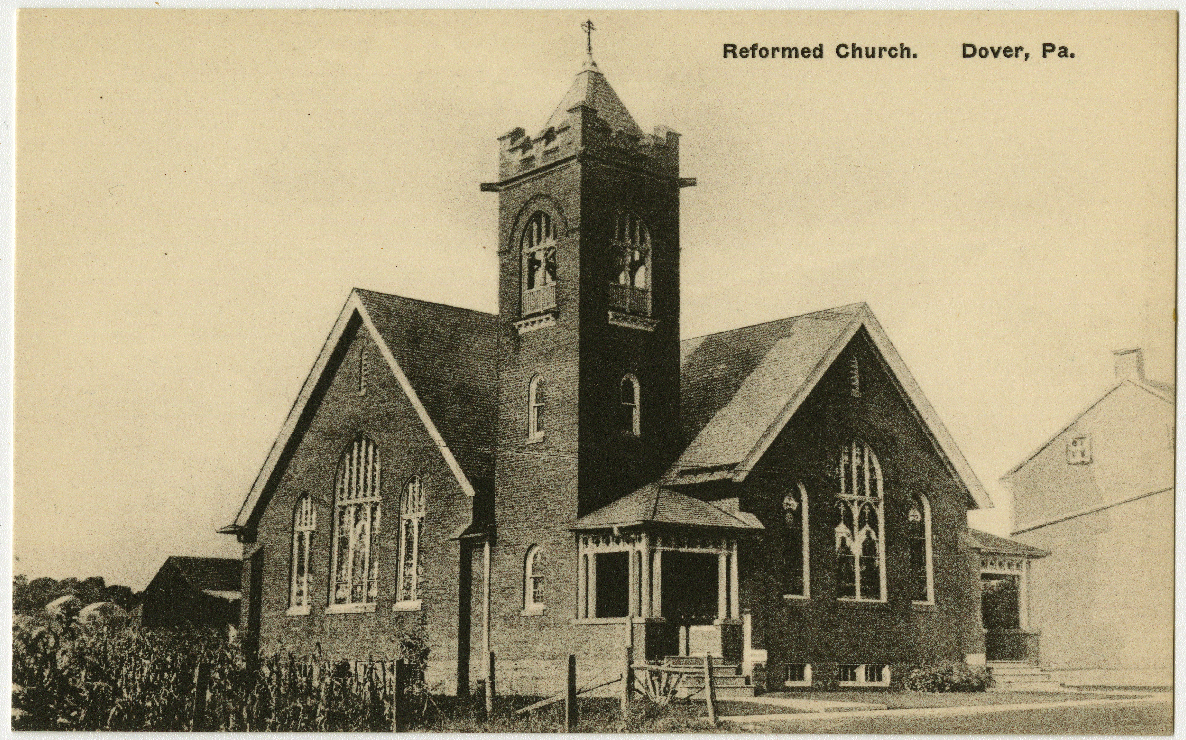 Reformed church in Dover, Pennsylvania from a pre-1923 postcard From RG 428, Postcard Collection, Presbyterian Historical Society, Philadelphia, Pennsylvania.